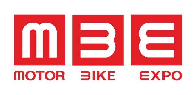 Motor Bike Expo logo